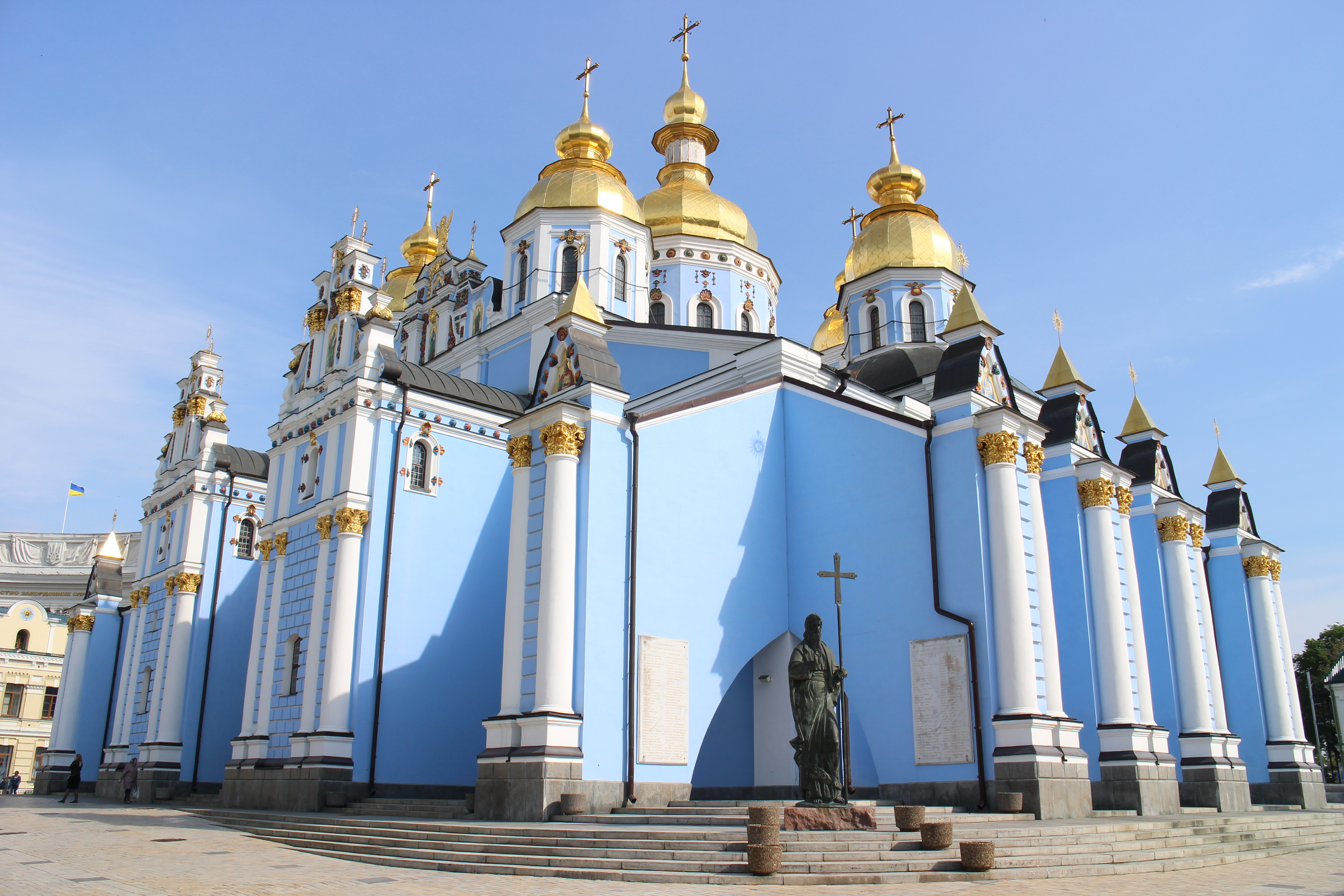 St. Michael's Golden-Domed Monastery in Kiev